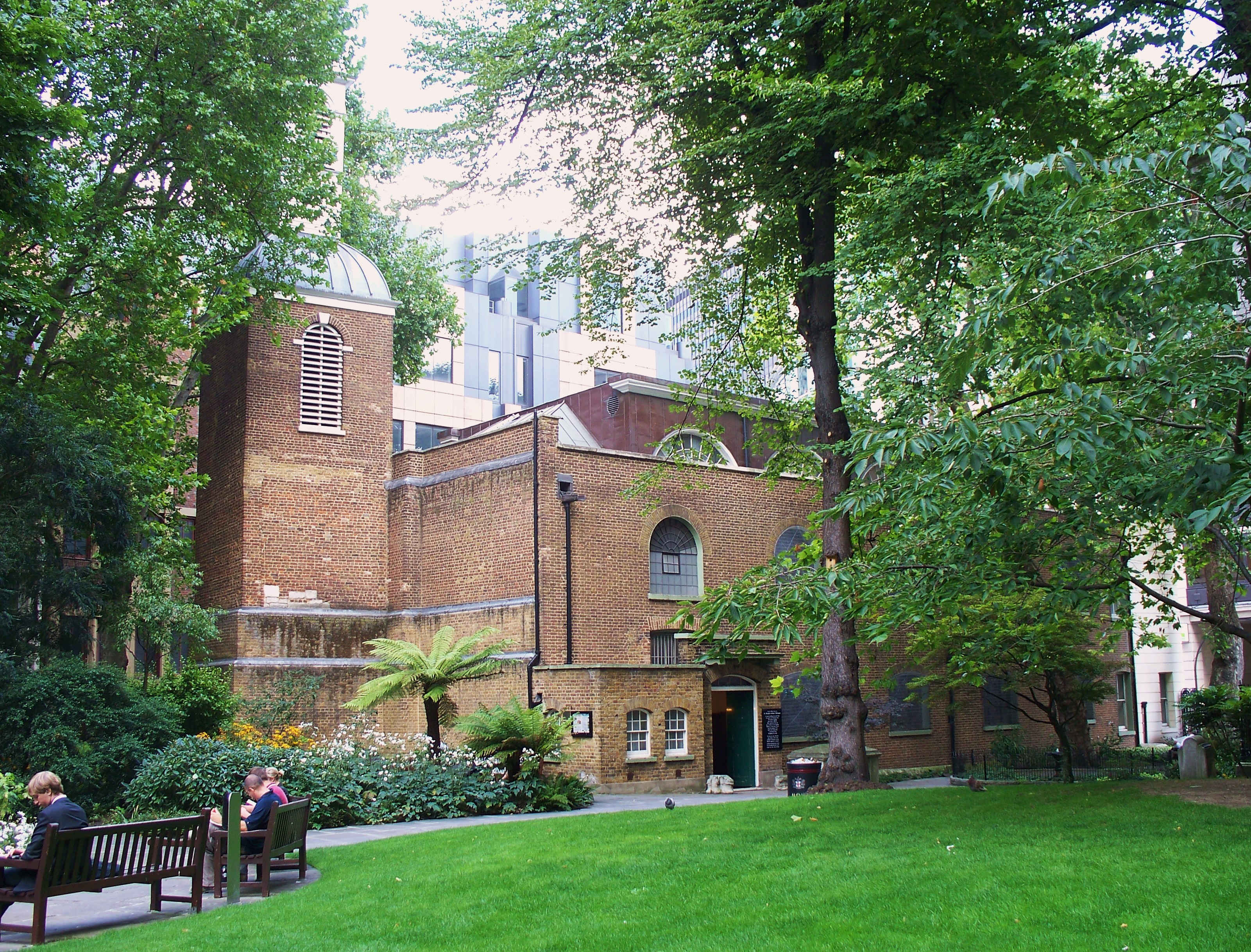 St Botolph Aldersgate Church, Postman's Park, London. Photograph taken in a public location in the UK of a building on permanent public display, and exempt from copyright under Section 62 of the Copyright Designs & Patents Act 1988 ("it is not an infringement of copyright to film, photograph, broadcast or make a graphic image of a building, sculpture, models for buildings or work of artistic craftsmanship if that work is permanently situated in a public place or in premises open to the public")